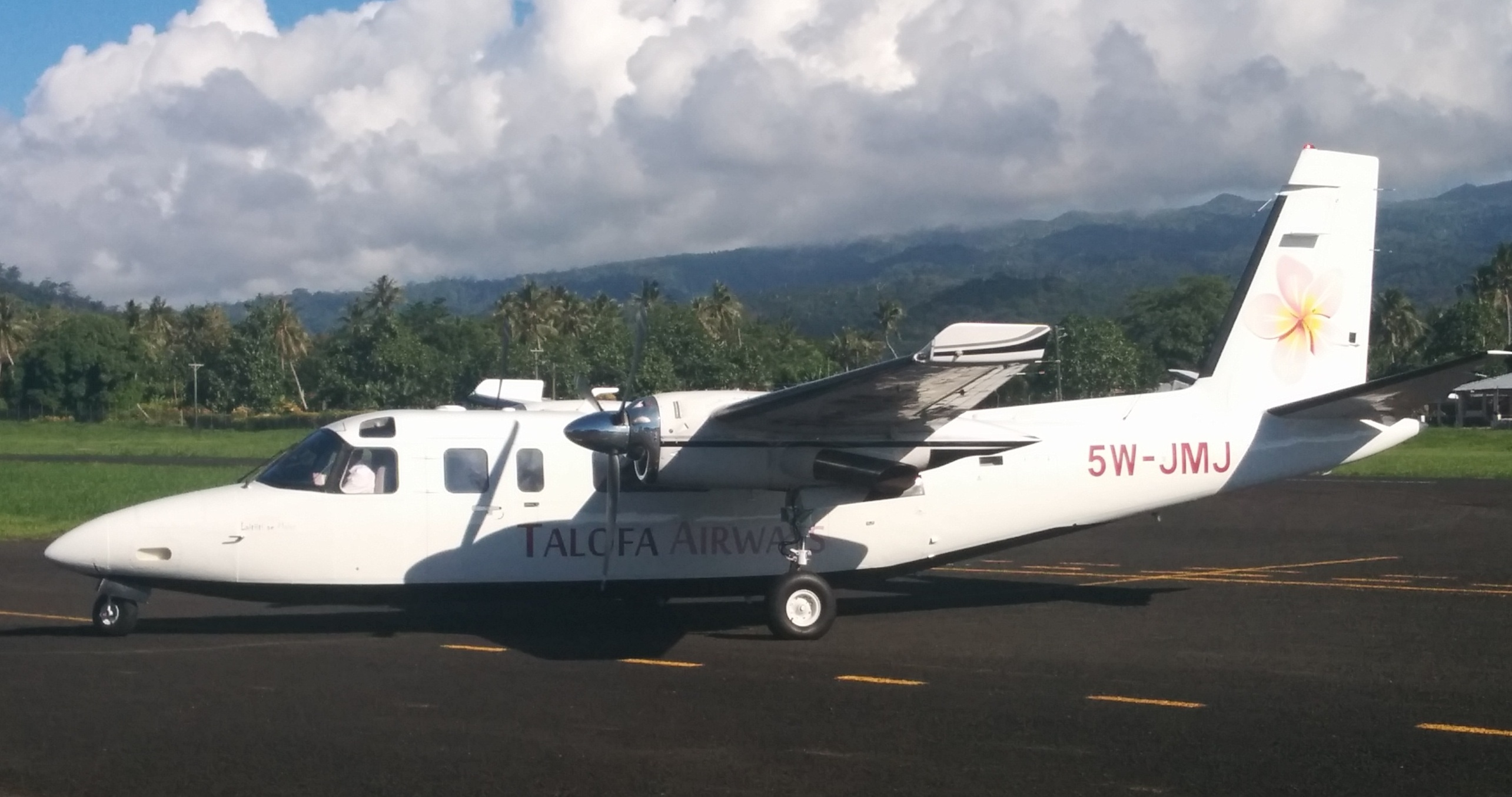 Talofa Airways Twin Commander registered 5W-JMJ at Fagali'i Airport, Apia, Samoa